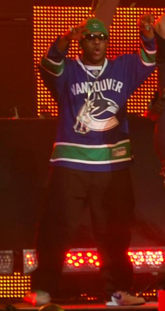 Mack Maine at General Motors Place concert in Vancouver.